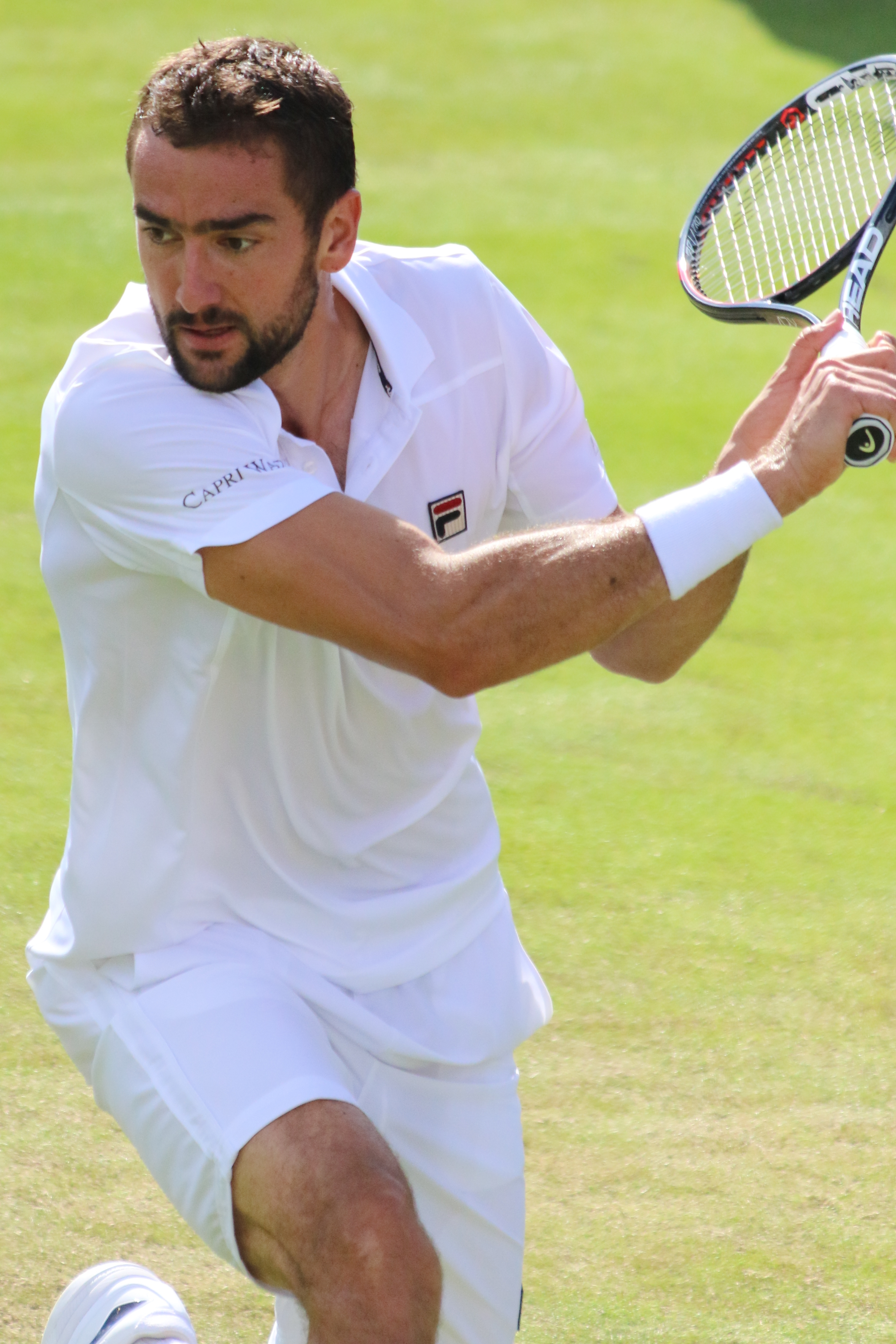 Cilic WM17 (30)